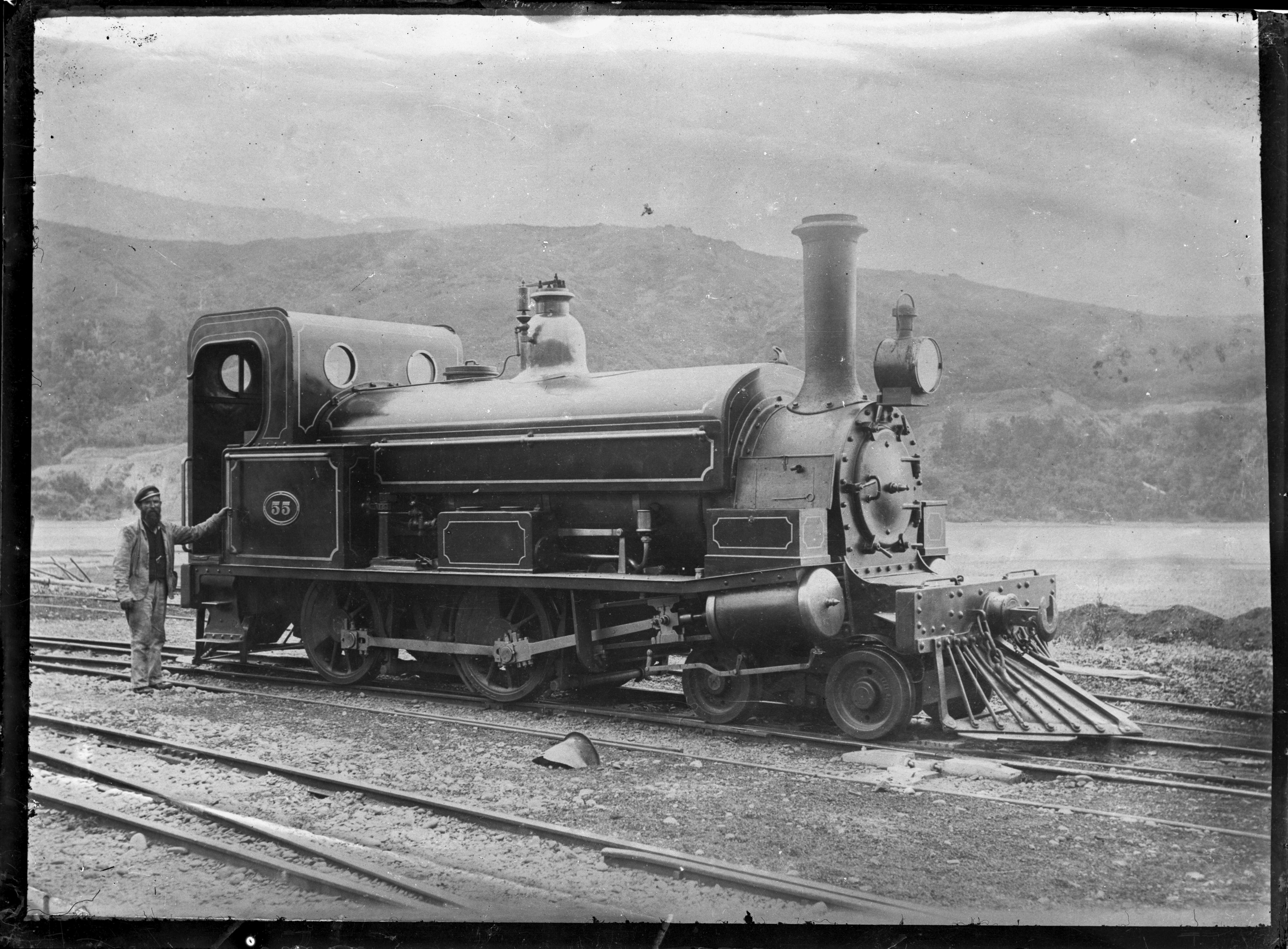 G class steam locomotive, New Zealand Railways number 55, with the train driver, J Conway, standing beside. Photographed by A P Godber, between 1875 and 1915.